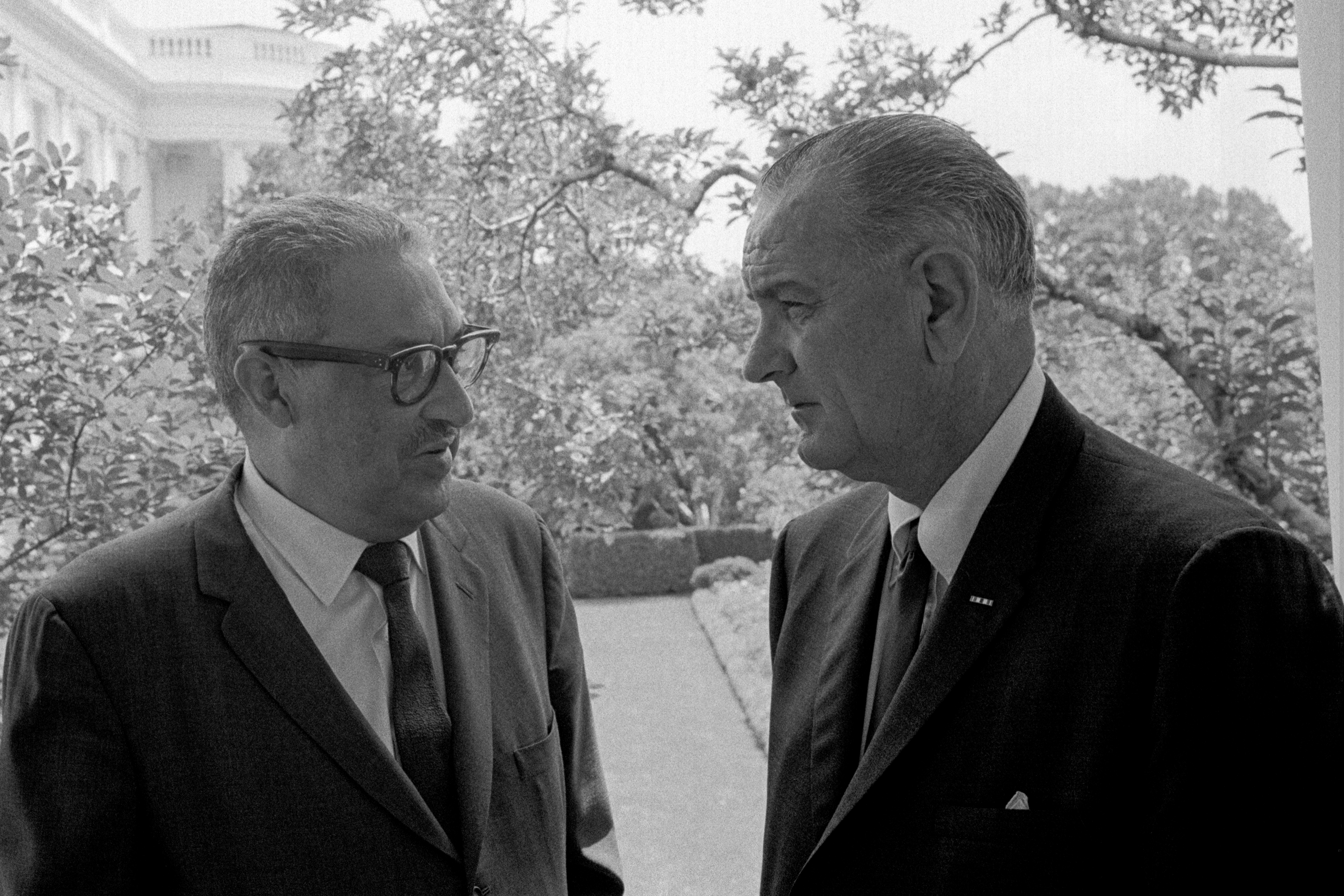 Enlarged and cropped image of LBJ with Thurgood Marshall